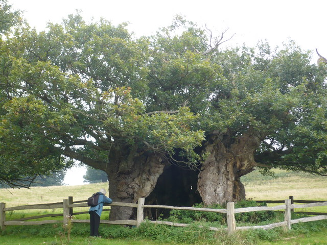 Queen Elizabeth oak, Cowdray Park, near Lodsworth North of the A272 and east of Easebourne, this ancient tree is believed to be between 800 and 1,000 years old. Queen Elizabeth I is thought to have visited it in 1591.